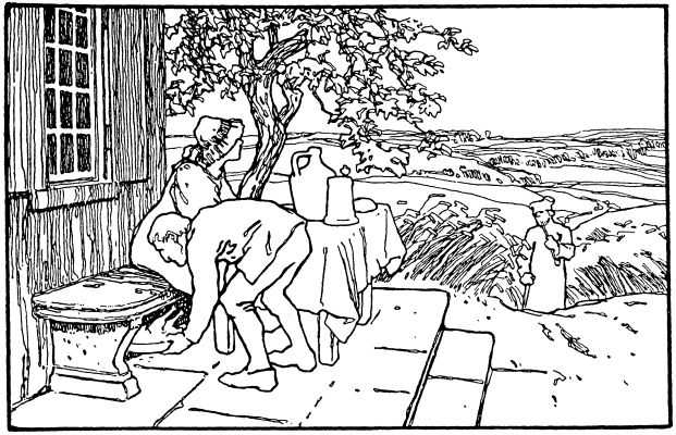 Illustration by Otto Ubbelohde to the fairy tale The Ungrateful Son